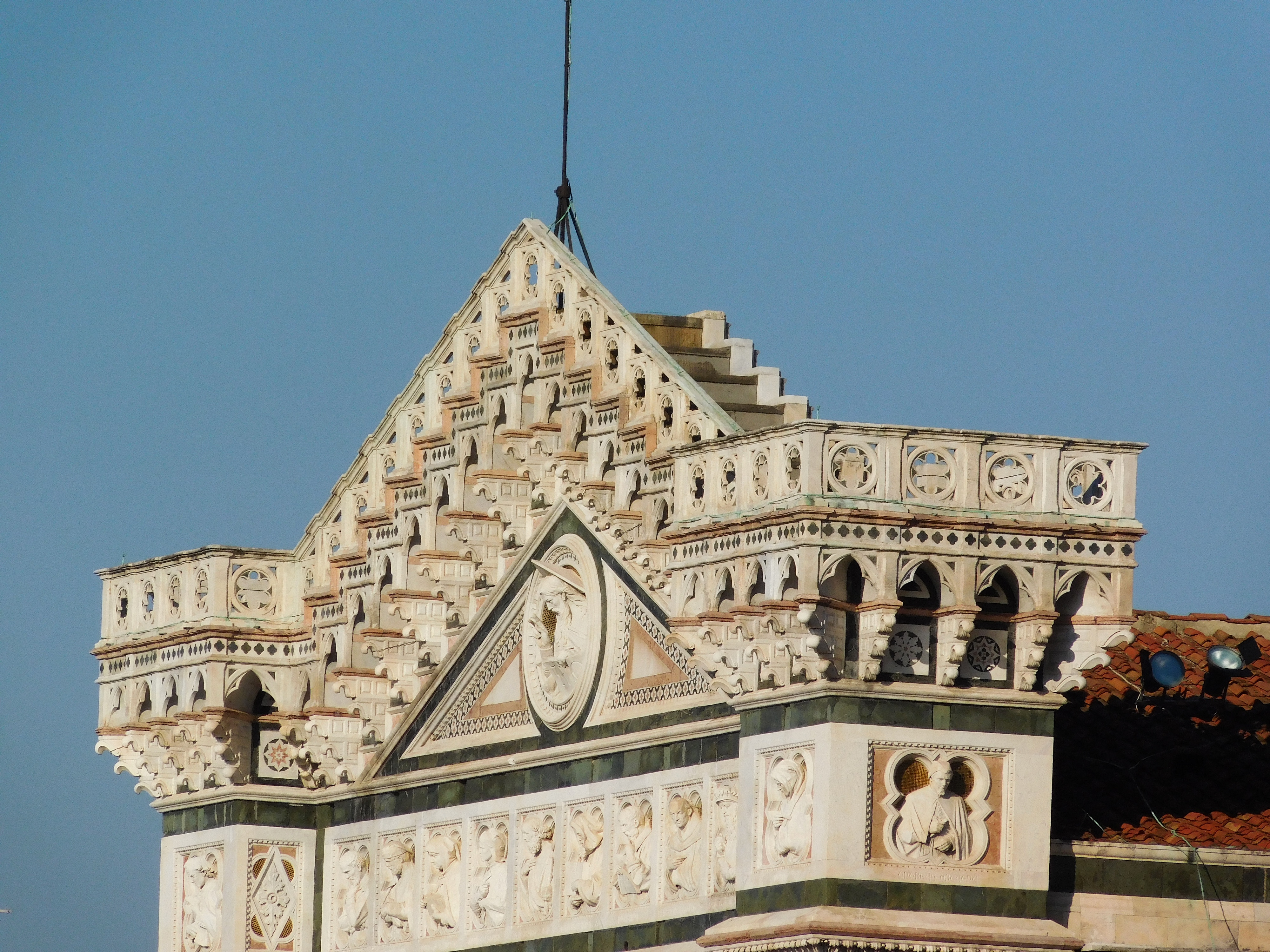 Florence, the Cathedral of Santa Maria del Fiore